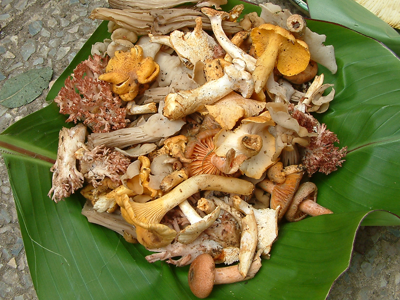 A 'medida', or 'fixed amount', of mixed mushrooms on sale in the market of San Juan Sacatepéquez, Guatemala department, Guatemala